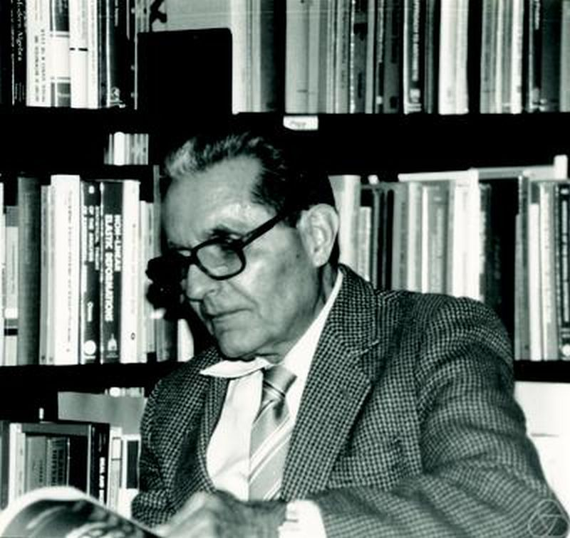 Hubert Delange, Oberwolfach 1986